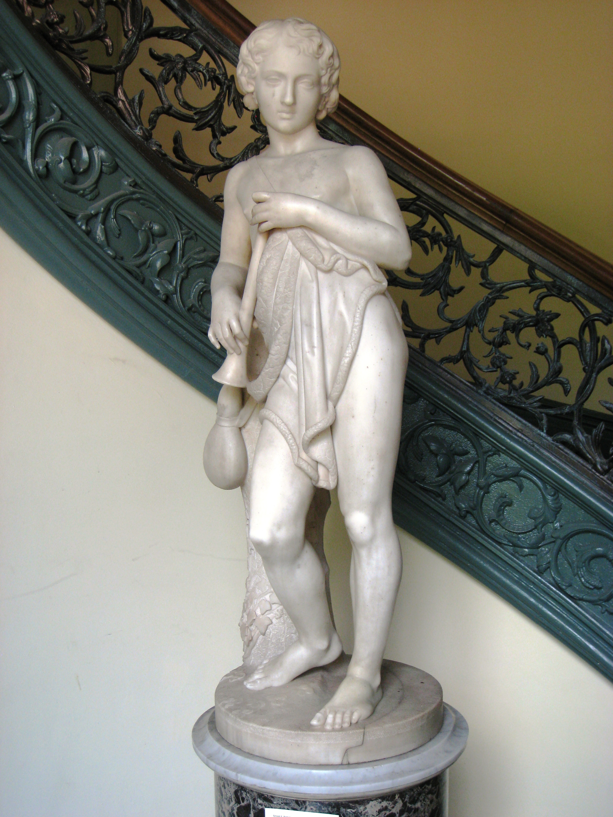 "Campagna Shepherd Boy", created prior to 1858 by Edward Sheffield Bartholomew (1822-1858), in the Peabody Institute, Baltimore, Maryland, USA. There were no prohibitions against photography in the institute. I took this photograph.